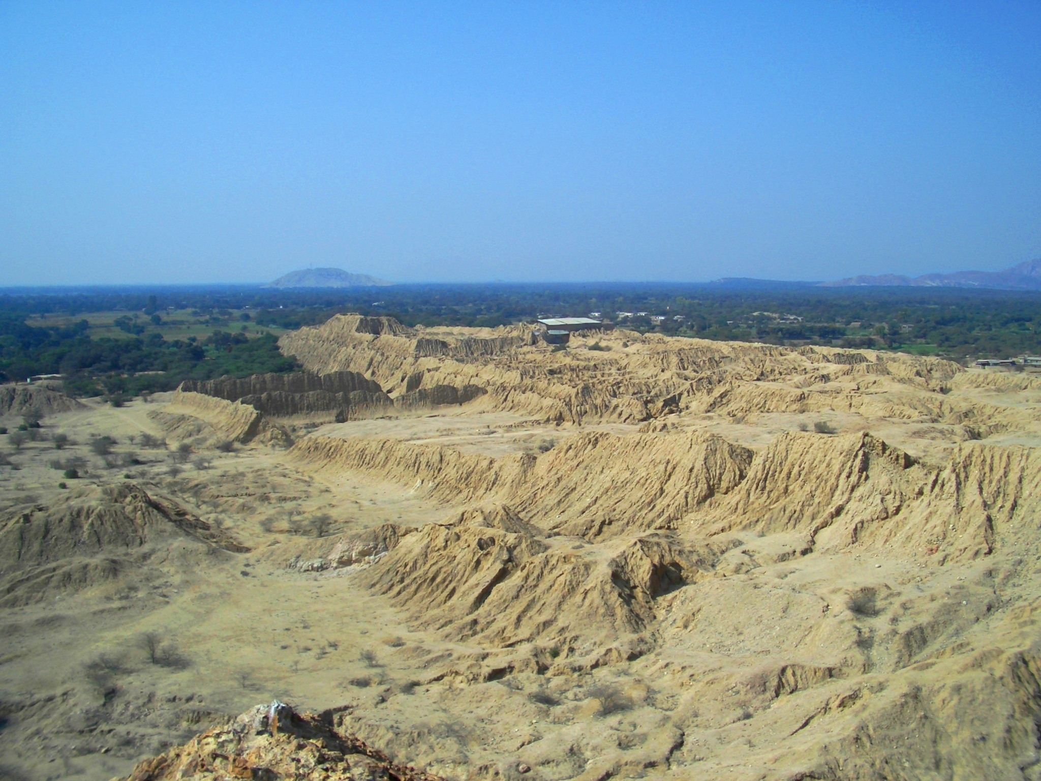 Huacas of Túcume (Northern Peru) Overlook